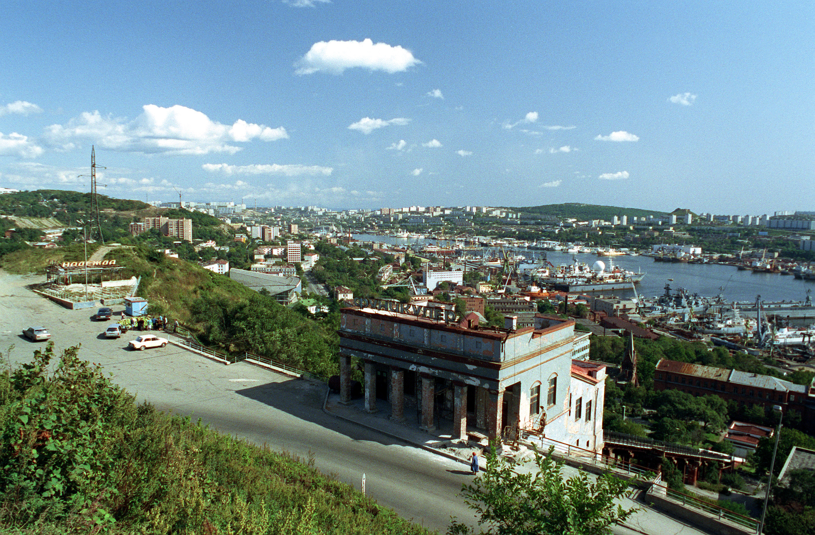 An overview of Golden Horn Bay, as seen from the south side. Vladivostok, Russia.